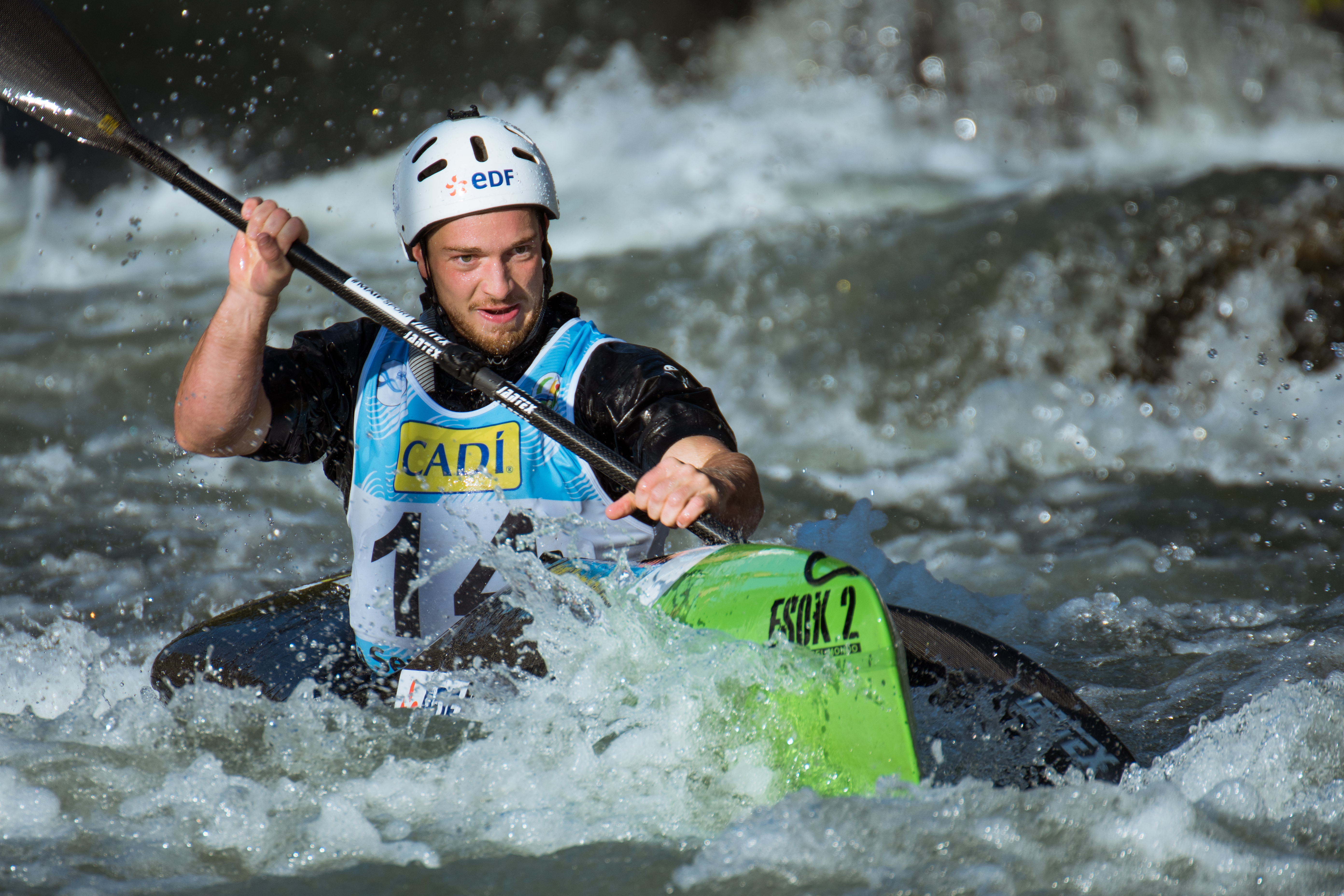 Hugues Moret during the 2019 Canoe Wildwater World Championships in La Seu d'Urgell, Spain.